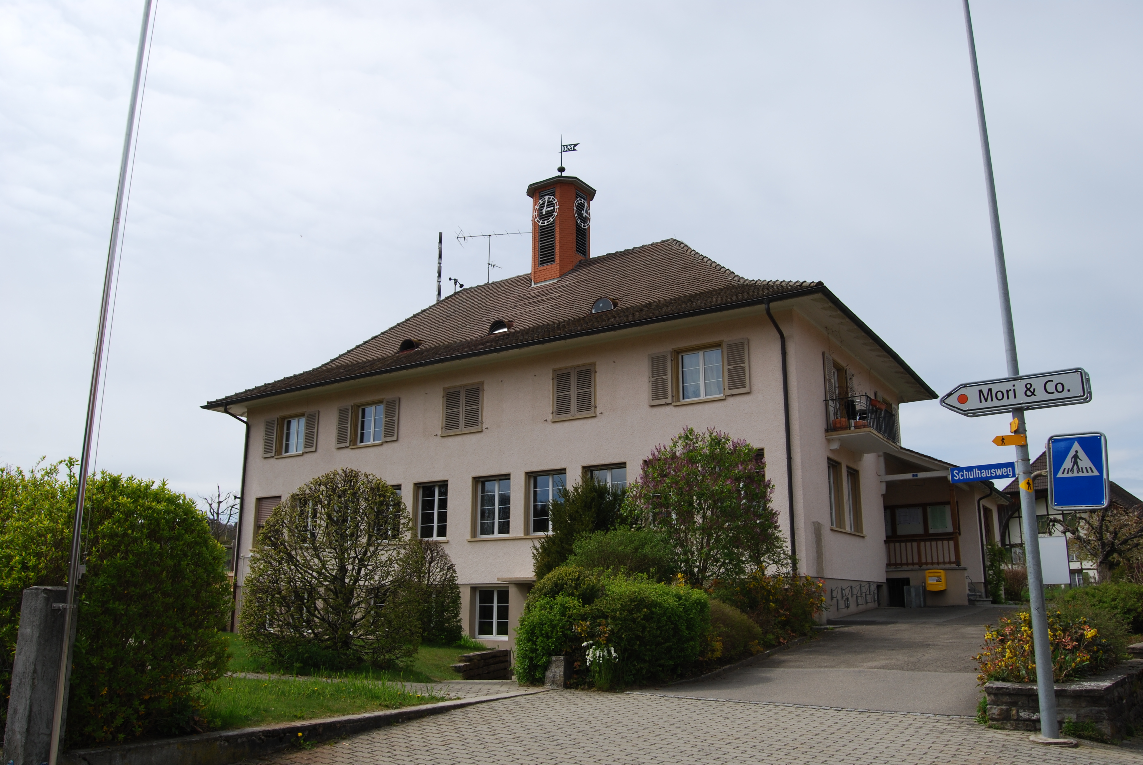 Ulmiz, canton of Fribourg, SwitzerlandEsperanto: Ulmiz, Kantono Friburgo, Svislando